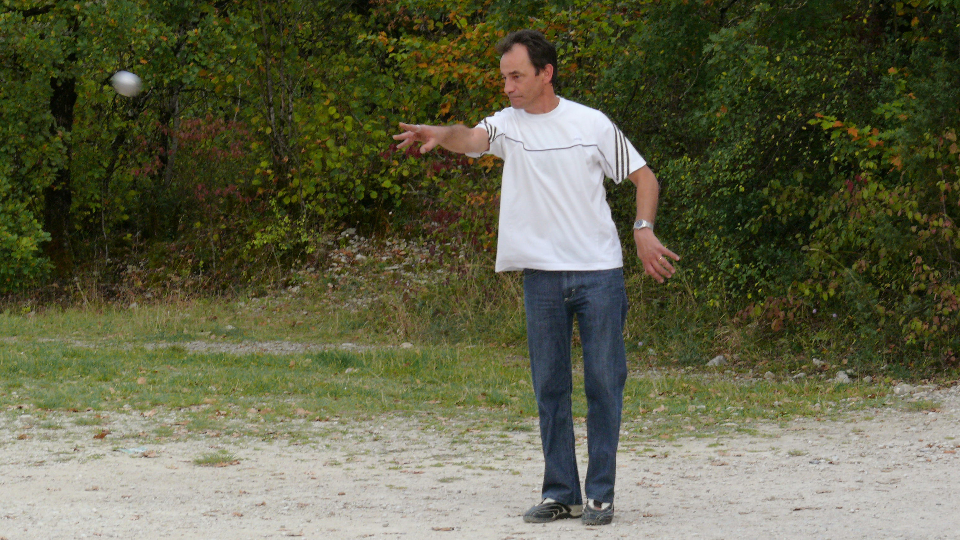 Boule player throwing the ball